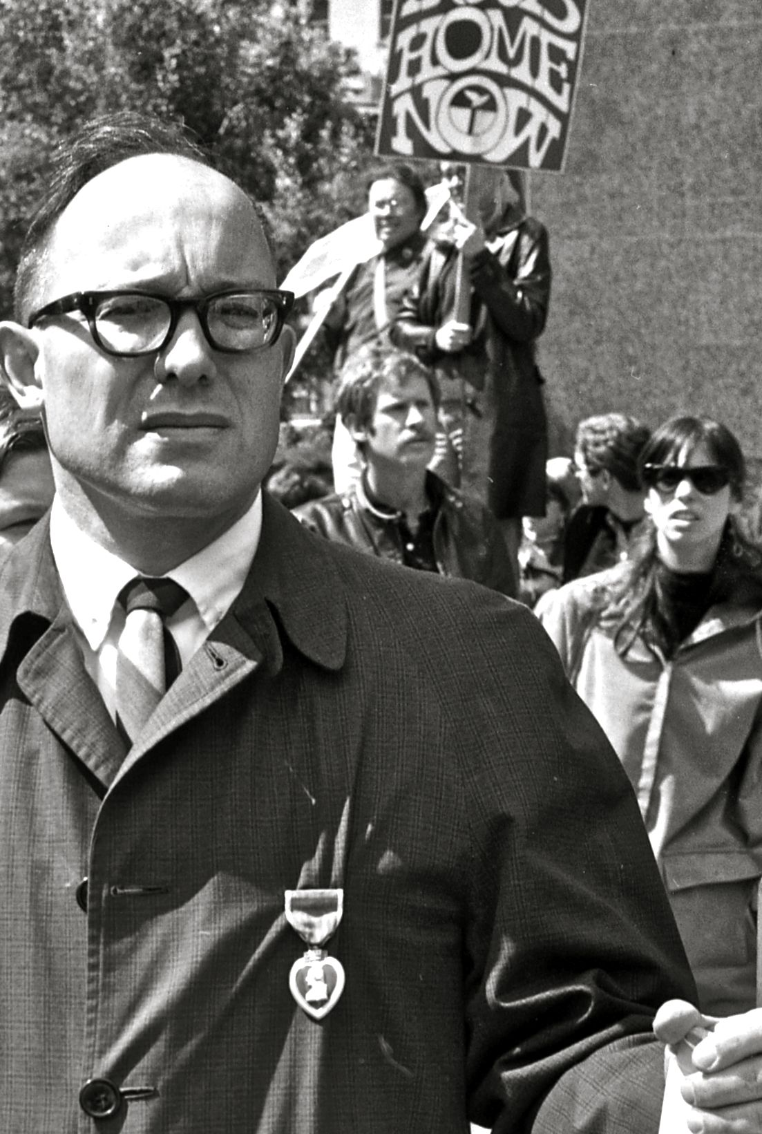 Man wearing Purple Heart medal during Vietnam peace march, San Francisco, 1967. In the background are participants and an antiwar sign. Other information Photo by George Garrigues.